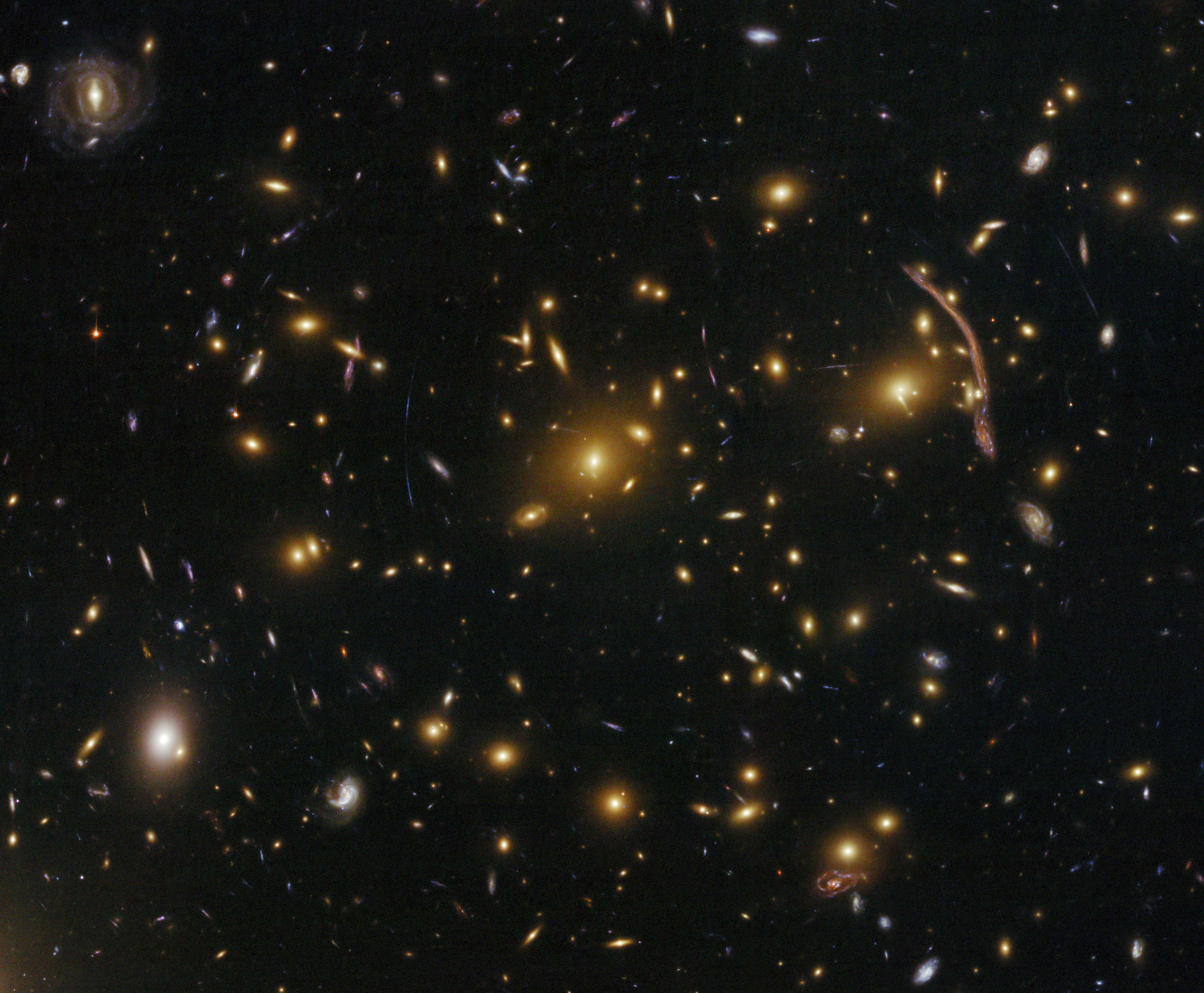 The NASA/ESA Hubble Space Telescope's newly repaired Advanced Camera for Surveys (ACS) has peered across almost five billion light-years to resolve intricate details in the galaxy cluster Abell 370. Abell 370 is one of the very first galaxy clusters where astronomers observed the phenomenon of gravitational lensing, the warping of space-time by the cluster’s gravitational field that distorts the light from galaxies lying far behind it. This is manifested as arcs and streaks in the picture, which are the stretched images of background galaxies. Ground-based telescopic observations in the mid-1980s of the most prominent arc (near the right-hand side of the picture) allowed astronomers to deduce that the arc was not a structure of some kind within the cluster, but the gravitationally lensed image of an object twice as far away. Hubble has now resolved new, previously unseen details in the arc that reveal structure in the lensed background galaxy. These observations were taken with Hubble's Advanced Camera for Surveys (ACS) in its Wide Field mode on 16 July 2009. The composite image was made using filters that isolate light from green, red and infrared wavelengths.